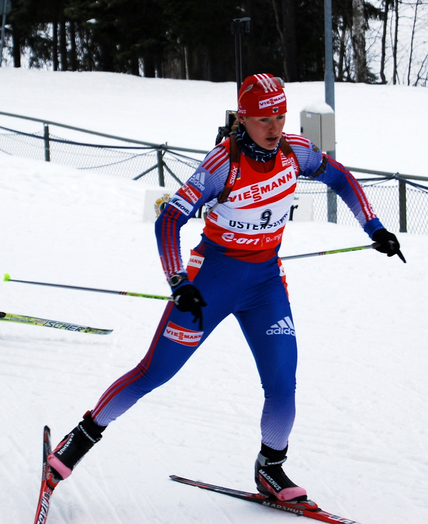 Russian biathlete Ekaterina Iourieva during the World Championships in Östersund 2008.